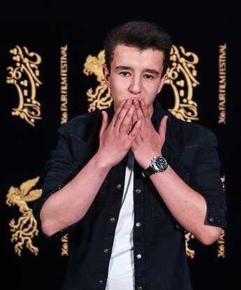 Mehdi Ghorbani